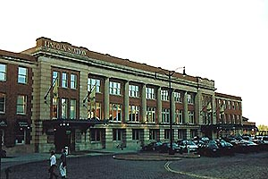 The Burlington Depot in Lincoln, Nebraska in May 2002. It was built in 1926 and closed in 2012.